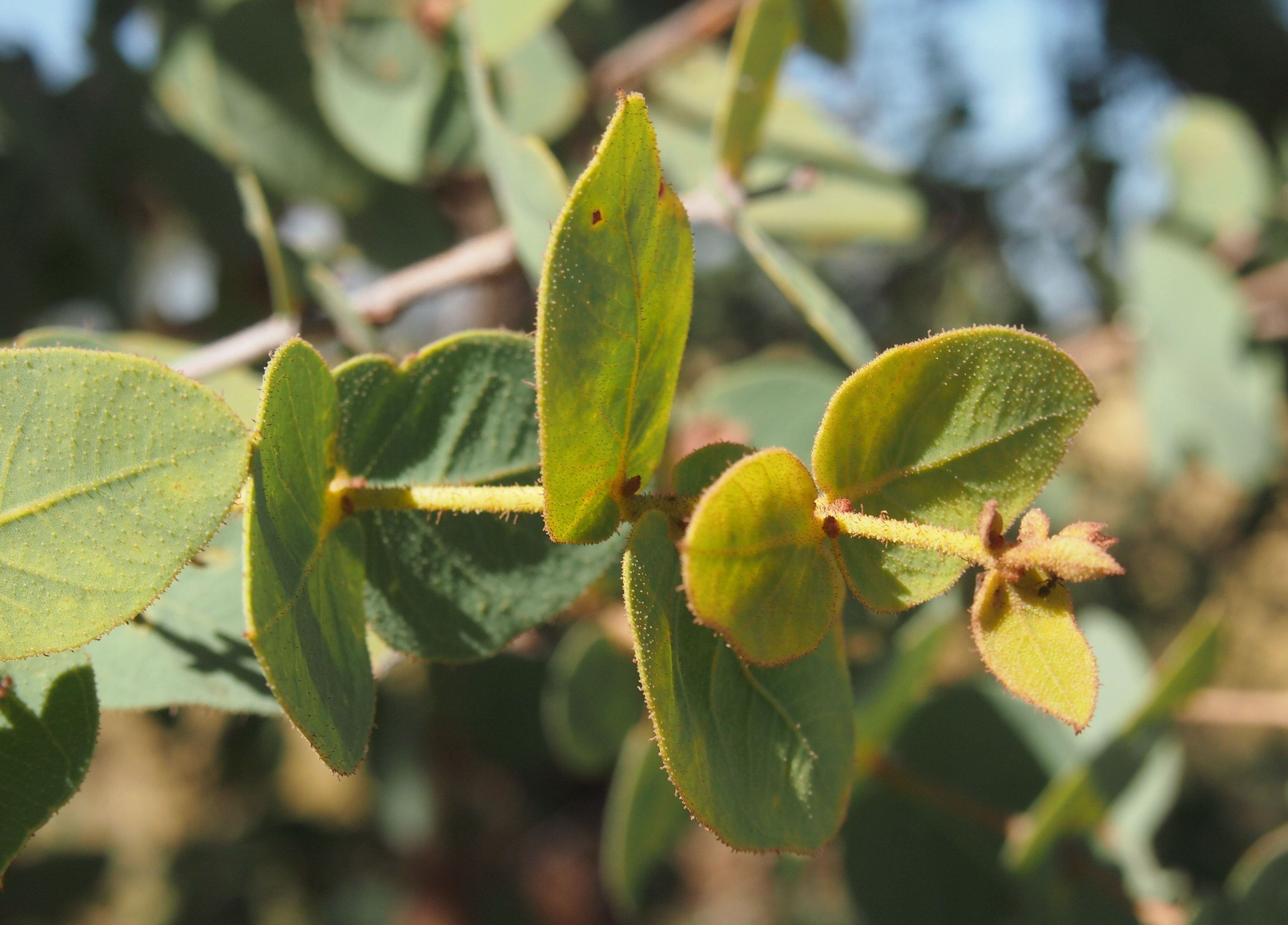 Corymbia setosa foliage